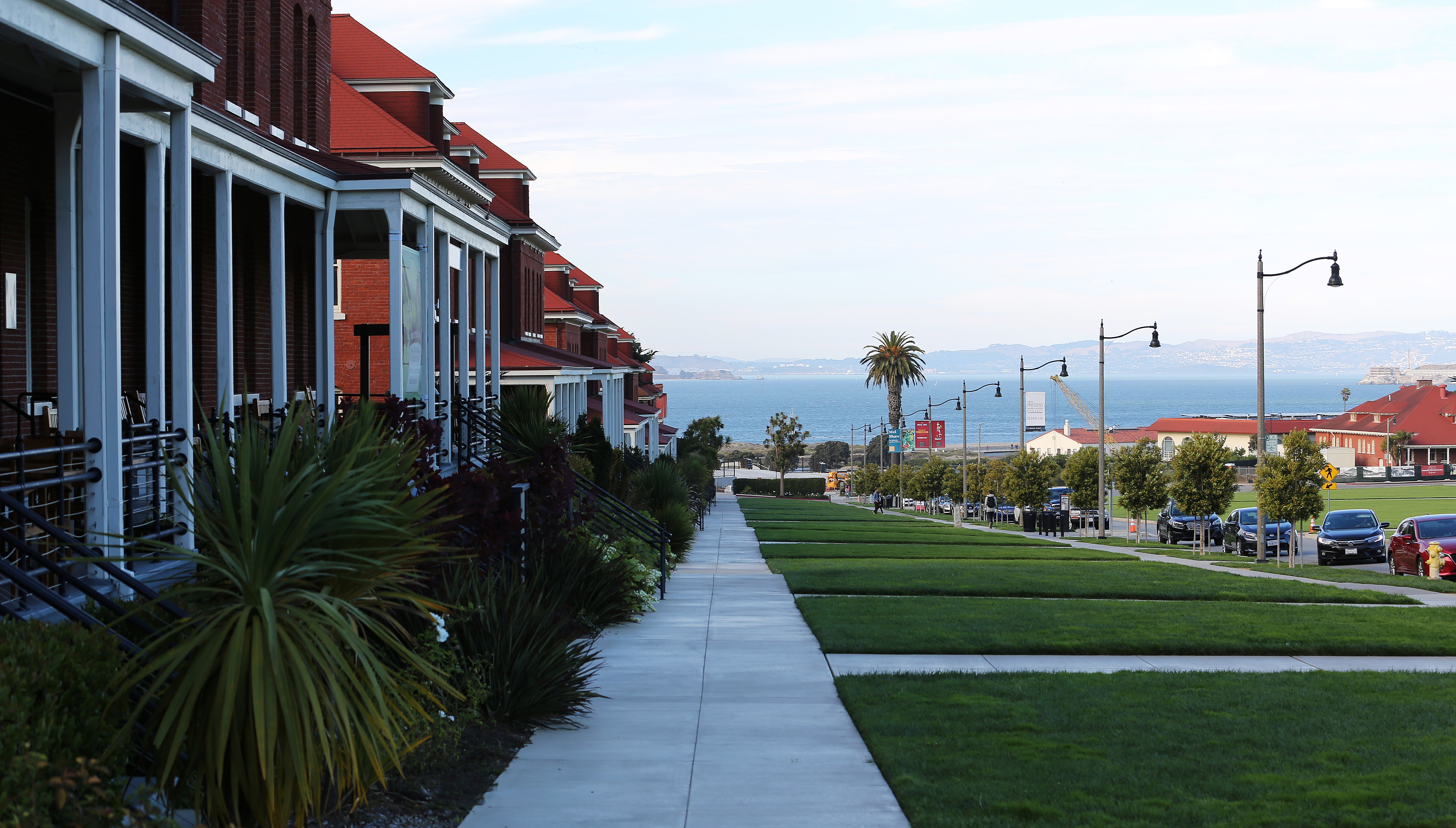 Houses and walks at the Presidio of San Francisco